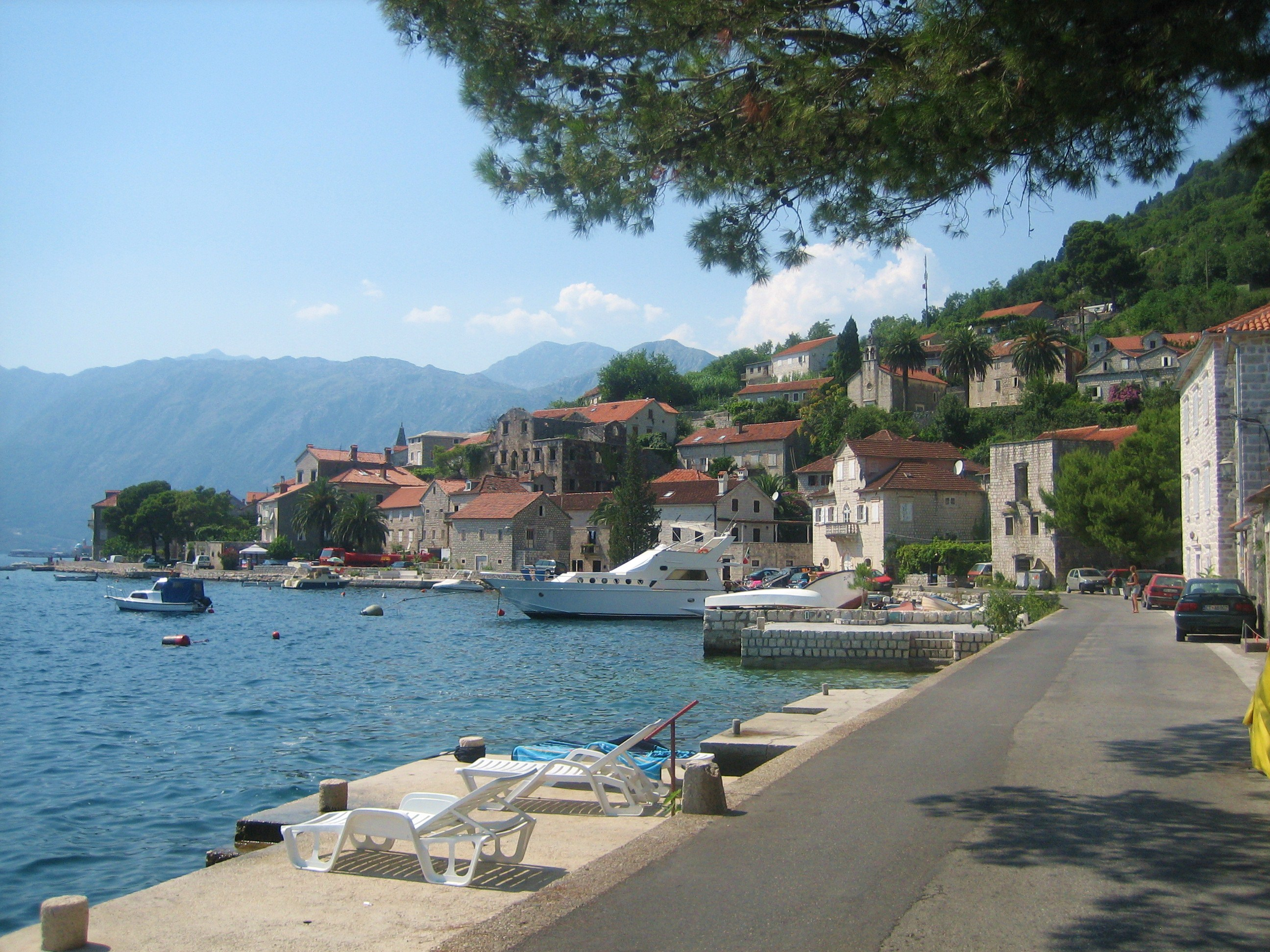 View of Perast, Kotor, Montenegro